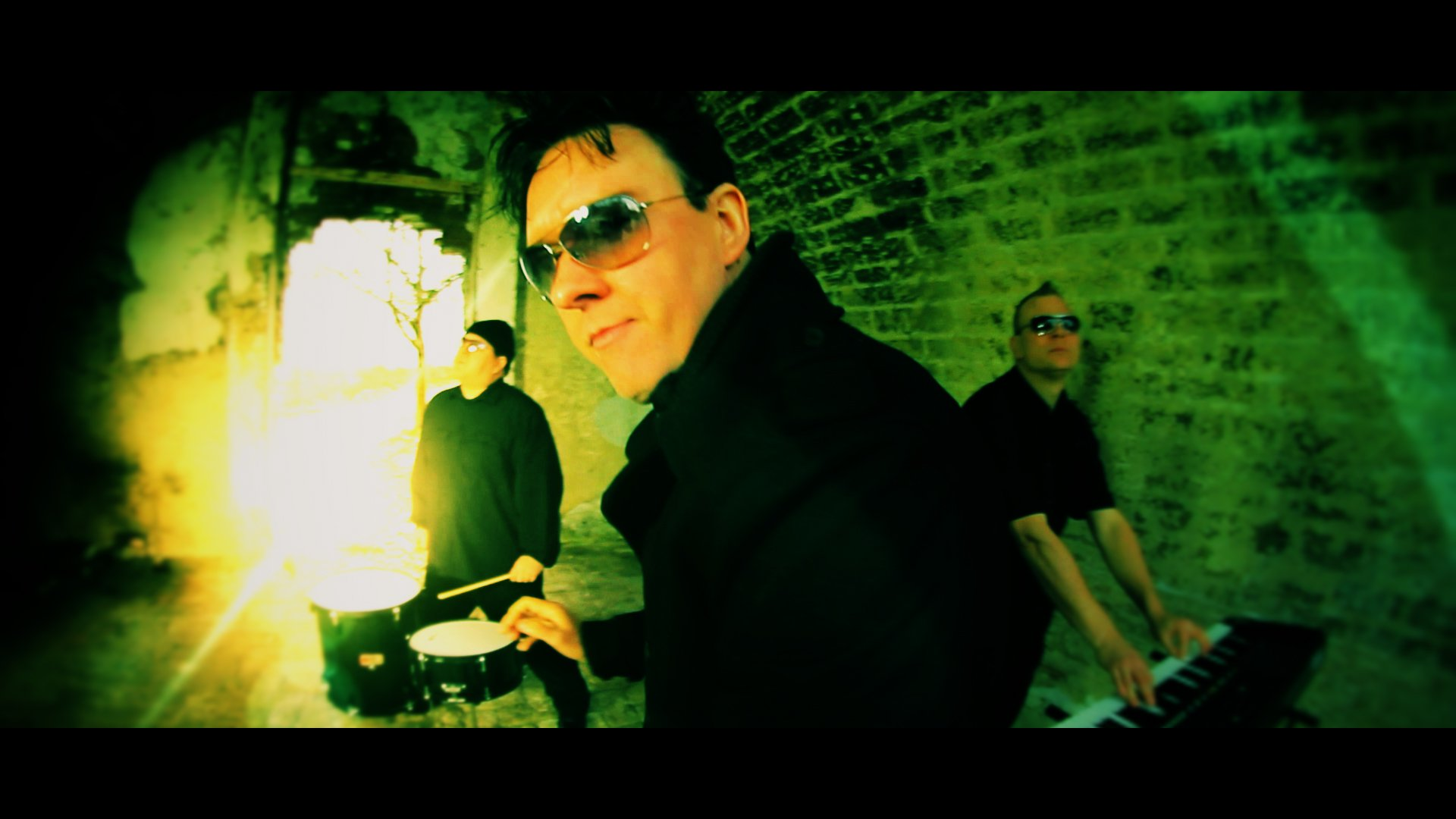 Endless Shame Picture 3